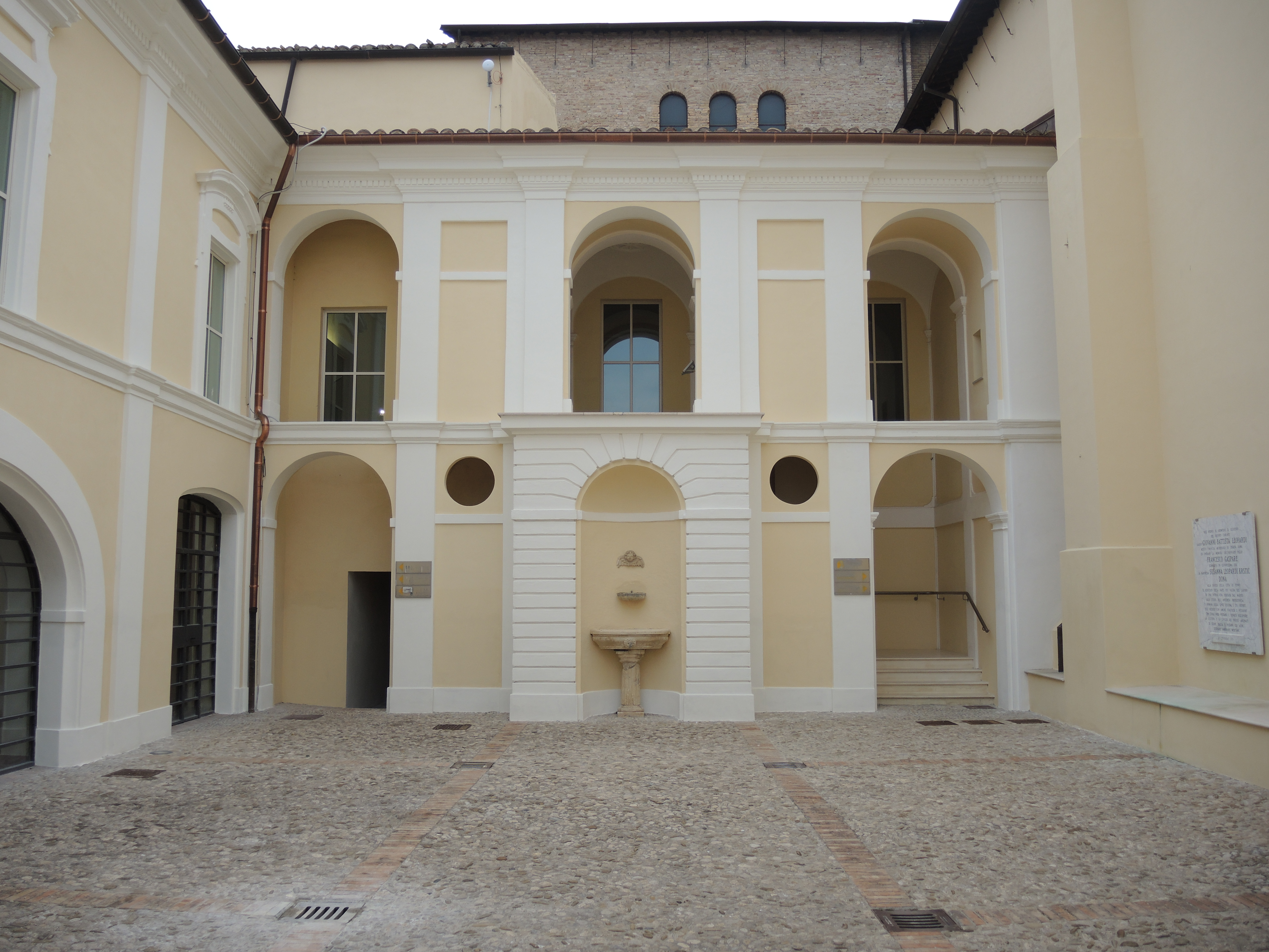 Penne: Museo Archeologico Civico e Diocesano Giovanni Battista Leopardi